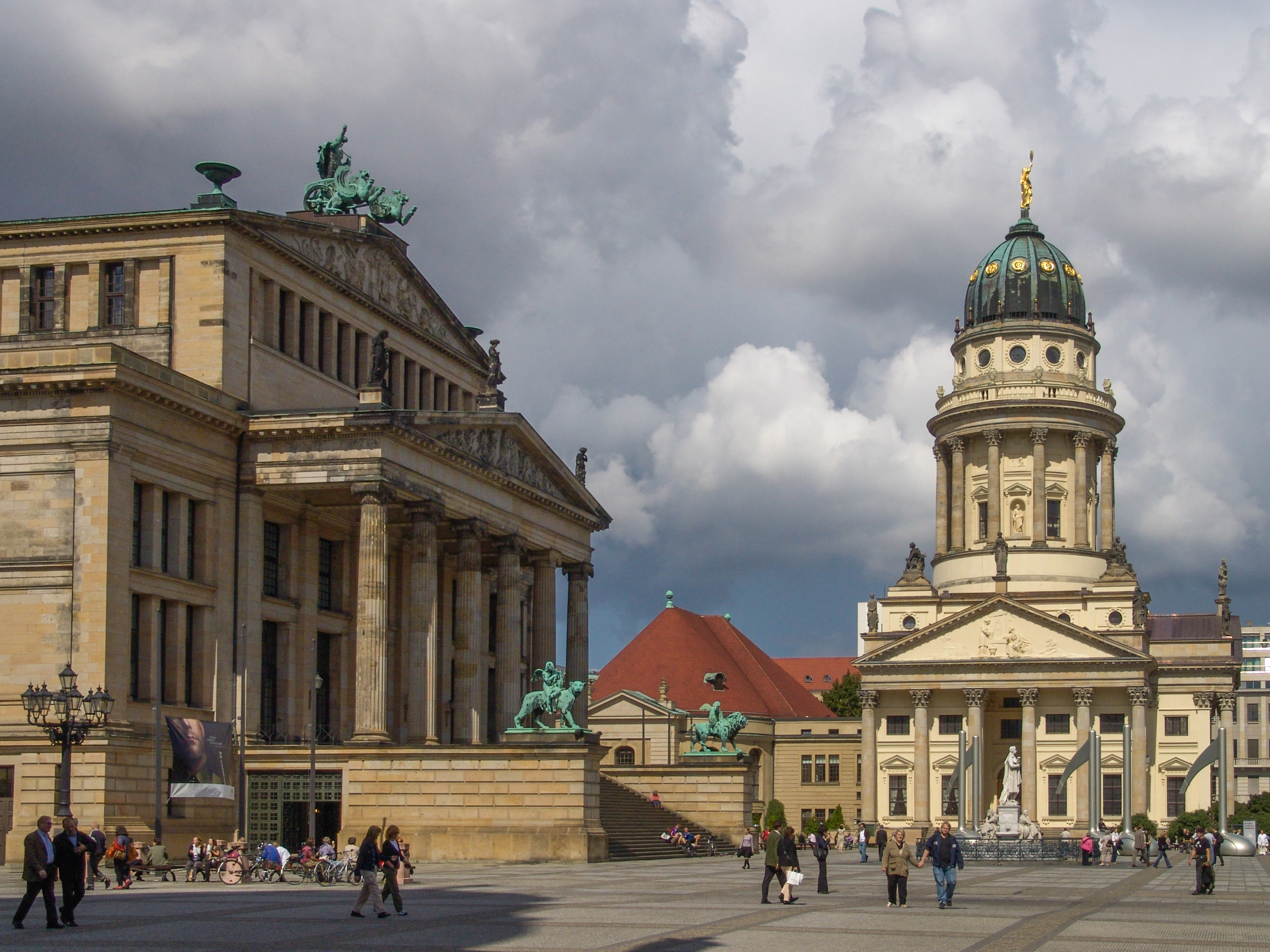 Gendarmenmarkt, Berlin, Germany